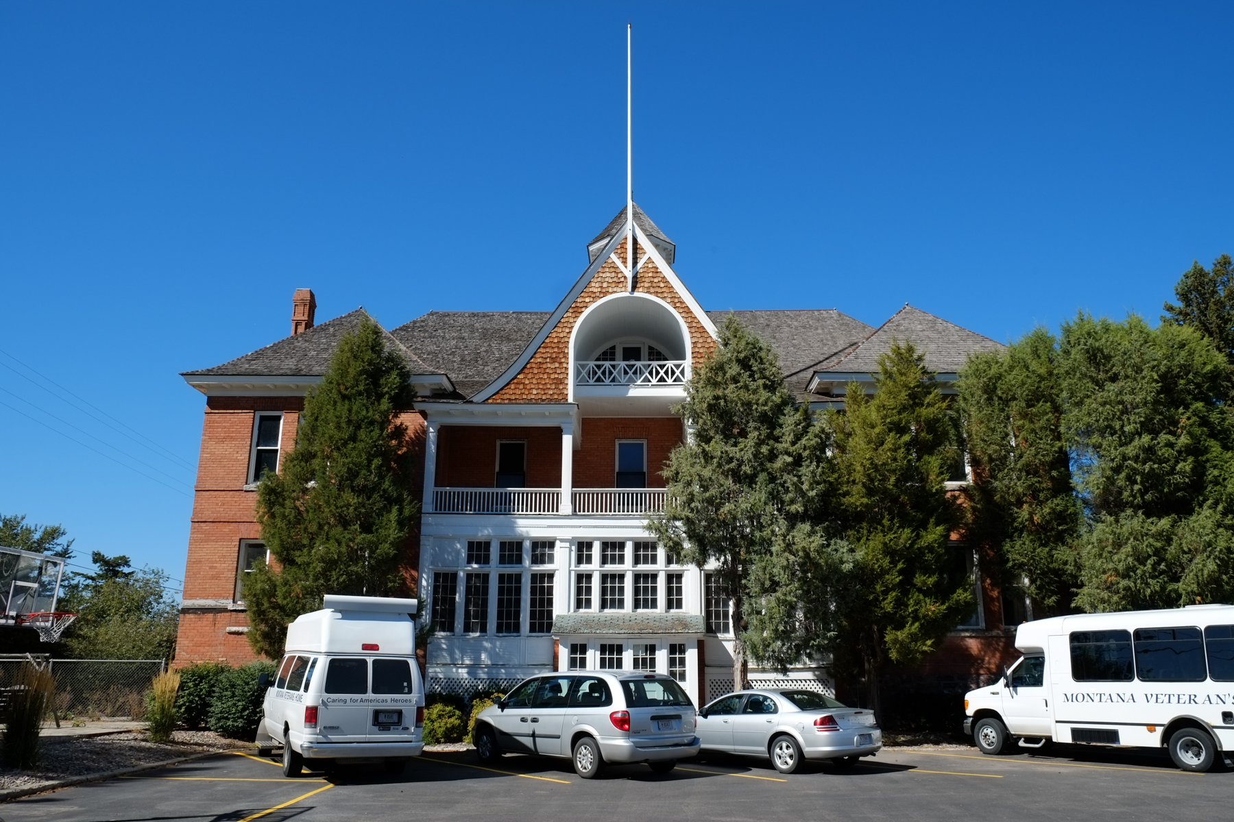 Soldiers' Home Historic District in Columbia Falls, Montana.